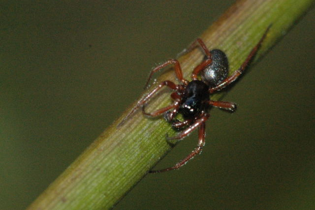 Lophomma punctatum from Commanster, Belgian High Ardennes .